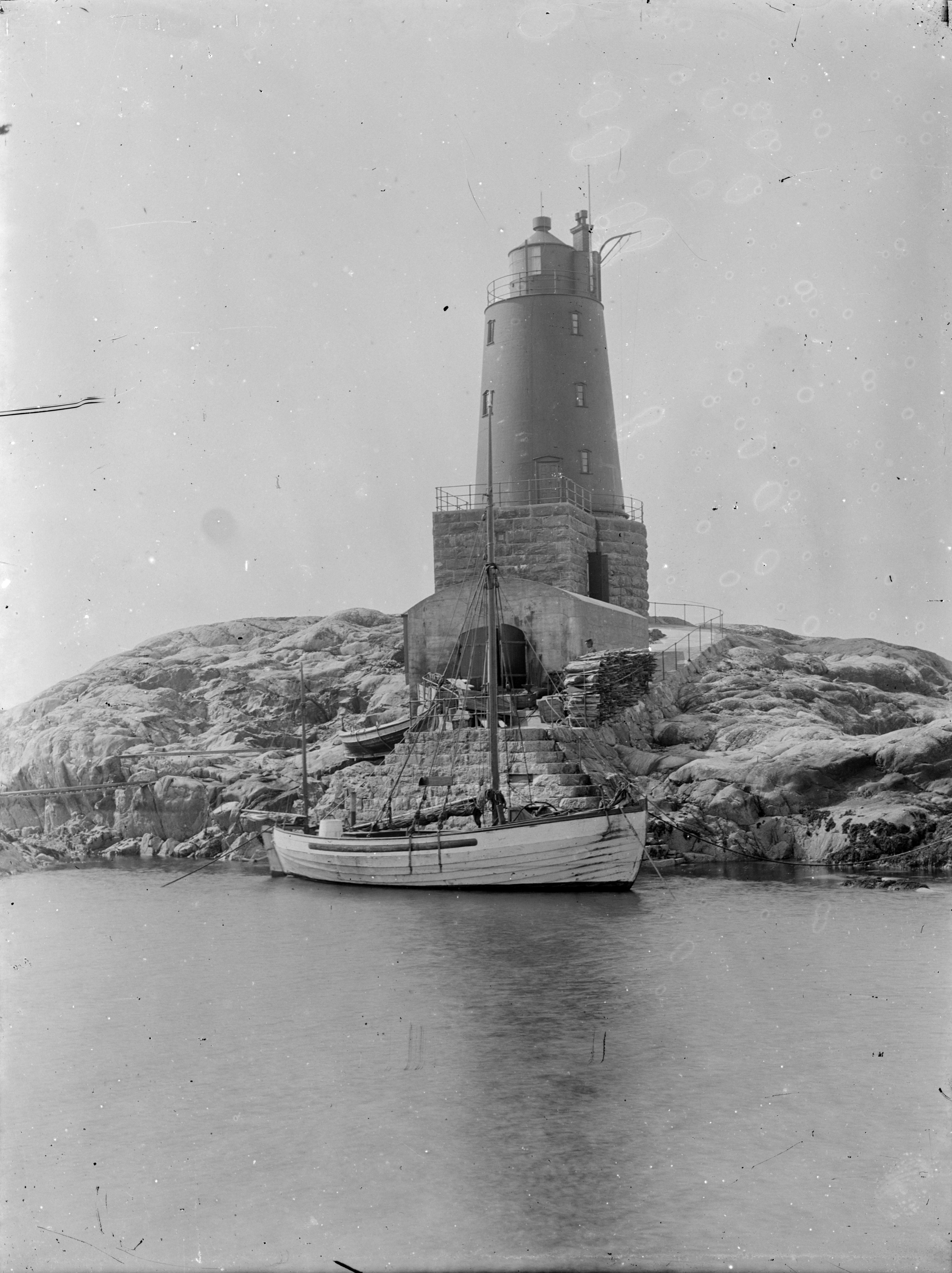 SFFf-1988007.0037 The image of the lighthouse is uploaded to Flickr with comments that the subject is unknown. However, a picture has been uploaded on digitalmuseum.no, of the same motive, only with a little different camera rating, see Grinna fyr. Here is the title i "Vikna, Grinna fyr in 1912". Also a search on Google shows images of the lighthouse today, the same characteristics as in this picture confirm that it must be Grinna lighthouse. After all, there are not many lighthouses in Norway who have this kind of tower. Photographer: Anders Folkestadås Date: ca 1900-1910. Medium: Glassplate negative Extent: 8 x 11 cm = 'SFFf-1988007.0037'